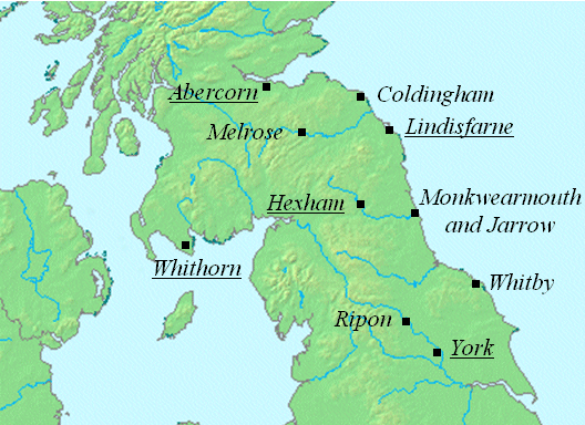 Bishoprics and monasteries of Northumbria in the time of Aldfrith. Other monasteries are known to have existed; the existence of the Bishopric of Whithorn is uncertain. I used this map as a base, which says: "After map at p.145 of Peter Hunter Blair, An Introduction to Anglo-Saxon England (ISBN 0-521-29219-0), simplified".